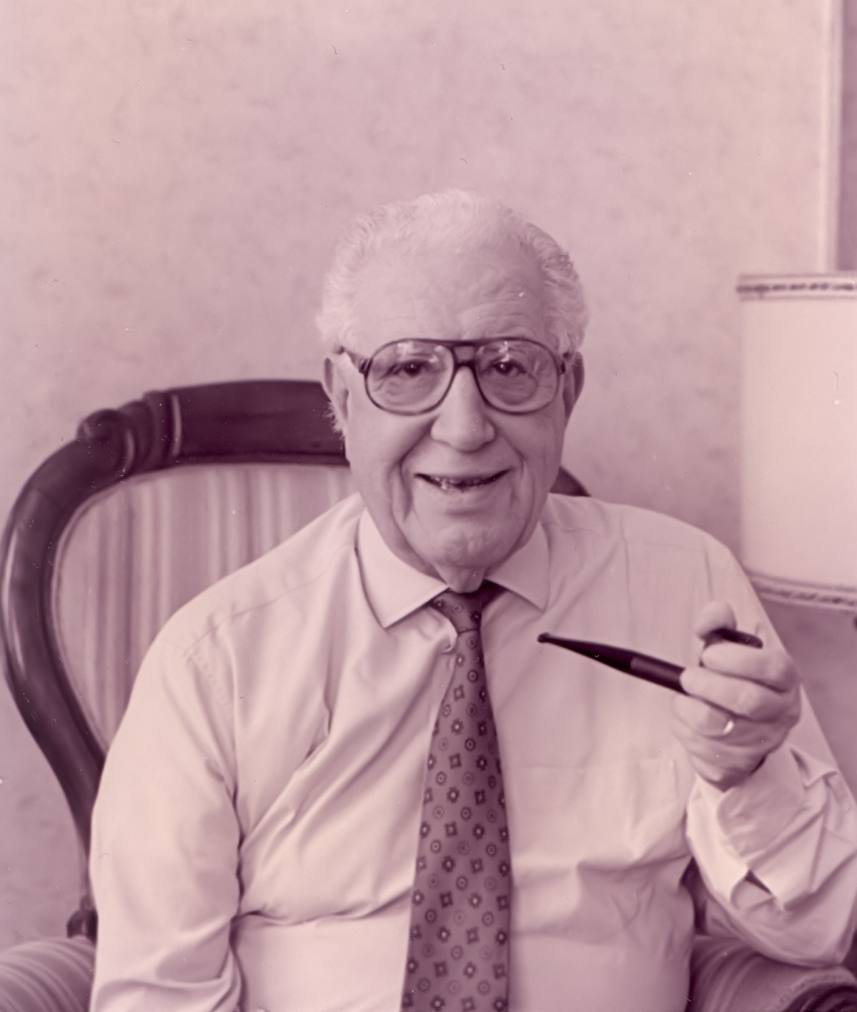 Luigi Gatteschi in his living room in Turin